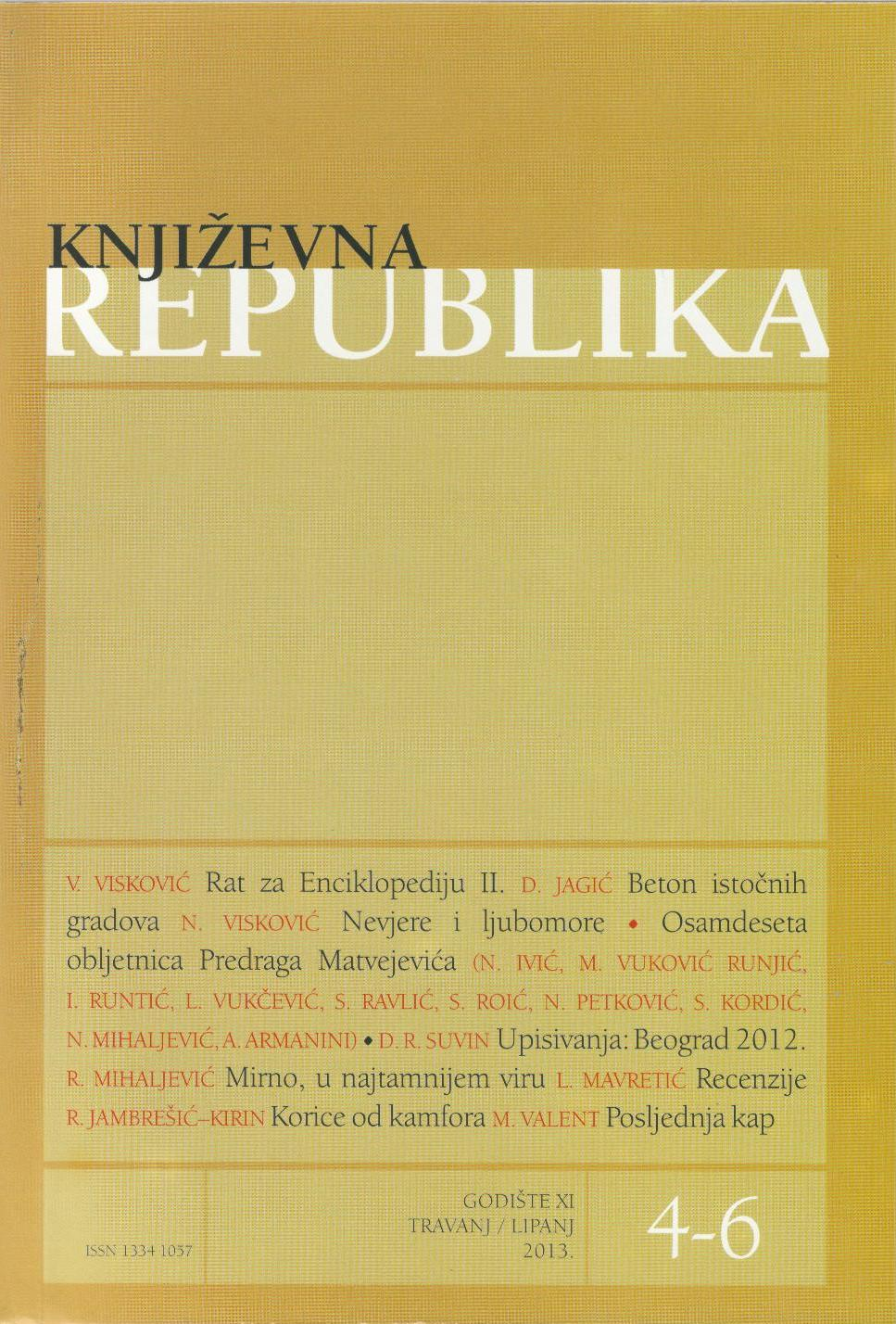 Journal cover of Književna republika, ISSN 1334-1057